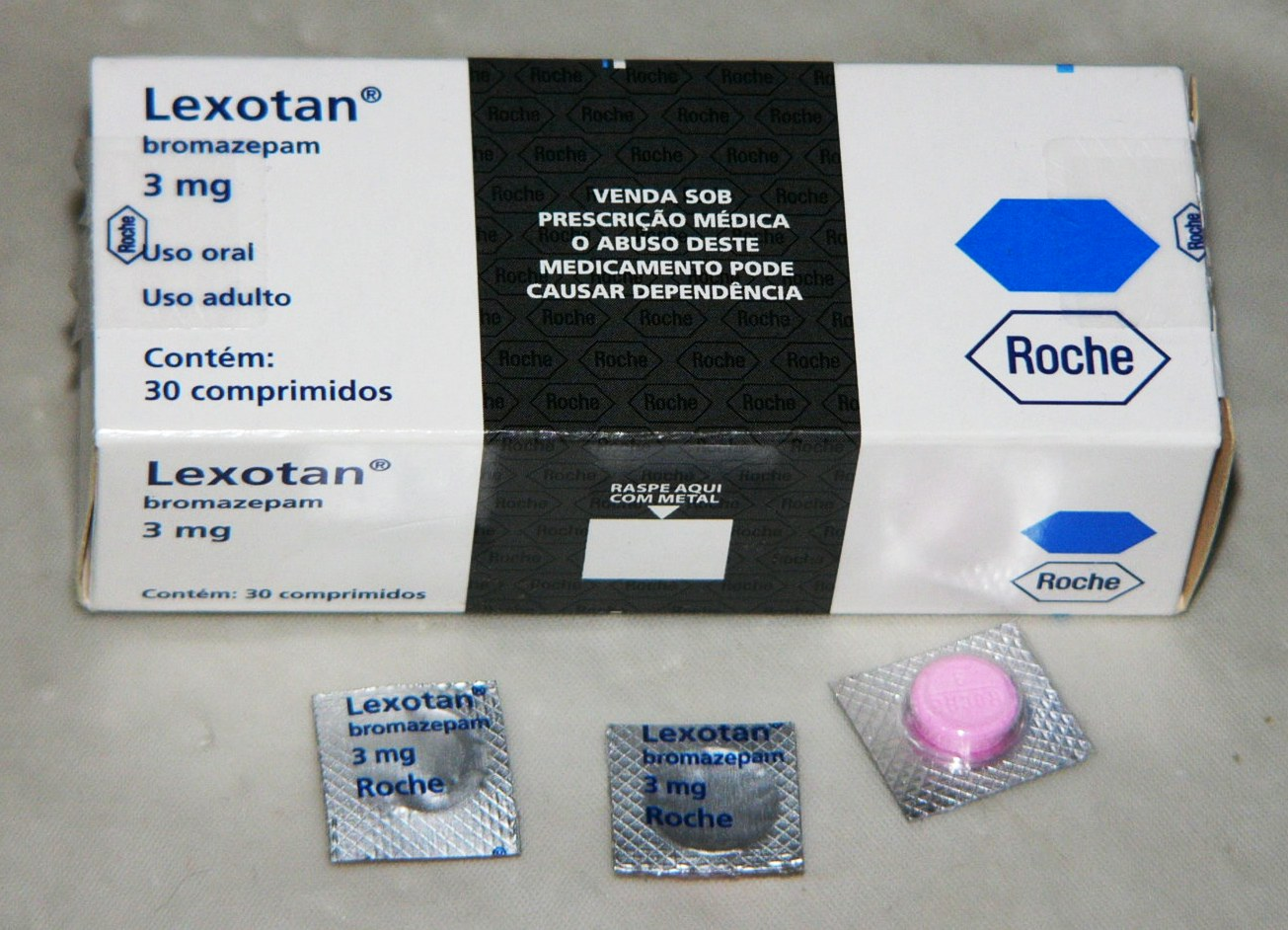 Lexotan drug box, sold in Brazil - 2006 by Roche.